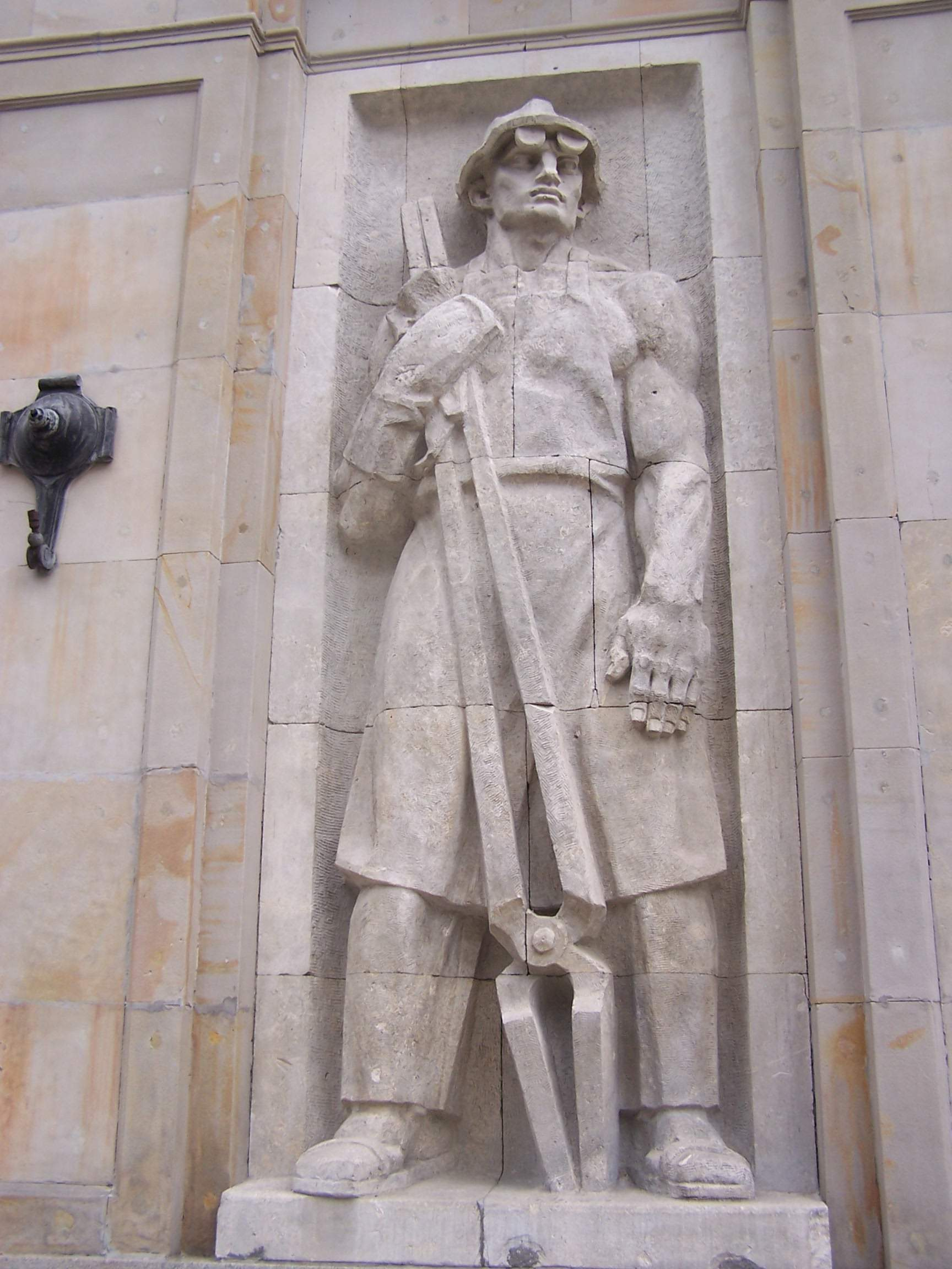 Bas-relief of an iron forger at Warsaw's MDM neighbourhood (Plac Konstytucji), one of prime examples of Socialist Realism in Polish architecture.